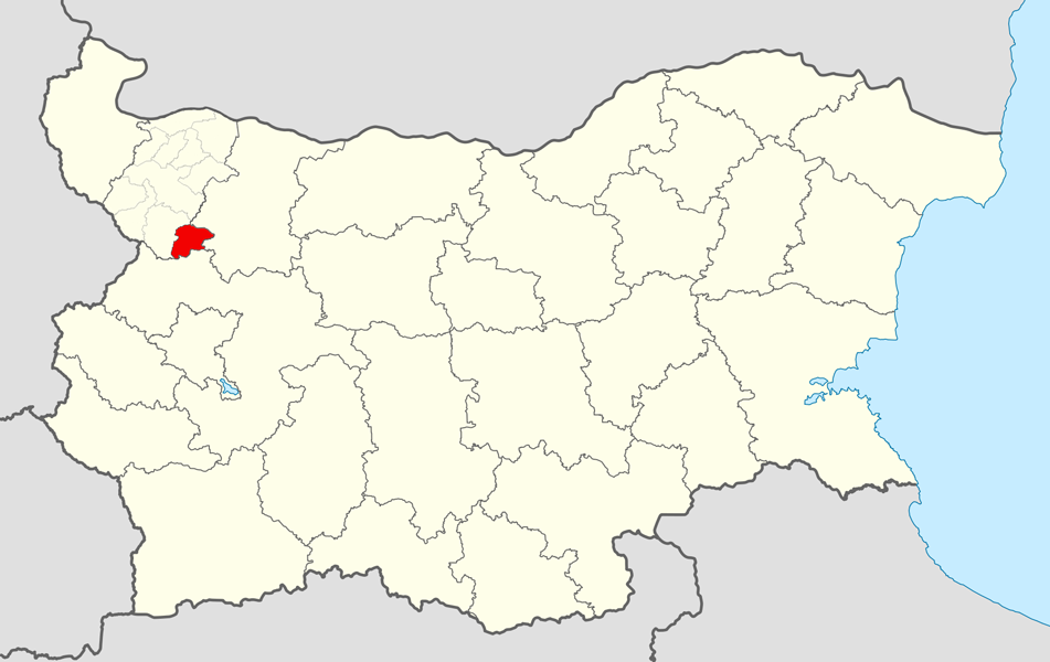 Location map of Varshets Municipality within Bulgaria and Montana Province. Equirectangular projection, N/S stretching 130 %. Geographic limits of the map: N: 44.4° N S: 41.1° N W: 22.1° E E: 28.9° E